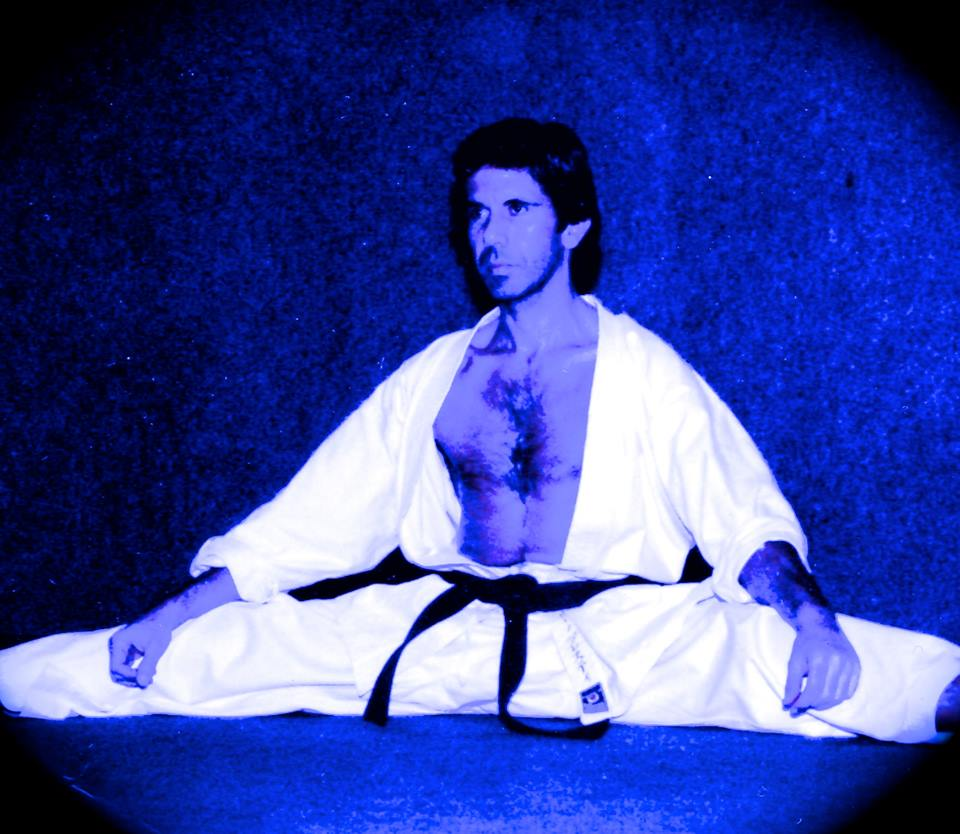 Pino Presti in Schwäbisch Gmünd (Germany) 1992 Photograph by Karin Hemp